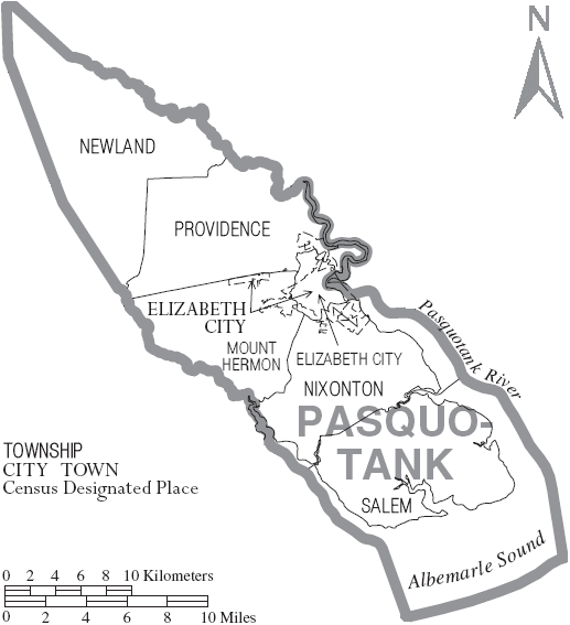 Map of Pasquotank County, North Carolina, United States with township and municipal boundaries